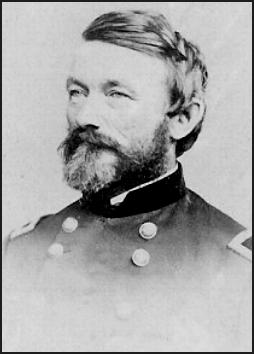 photo of Nathaniel James Jackson (1818-1892)